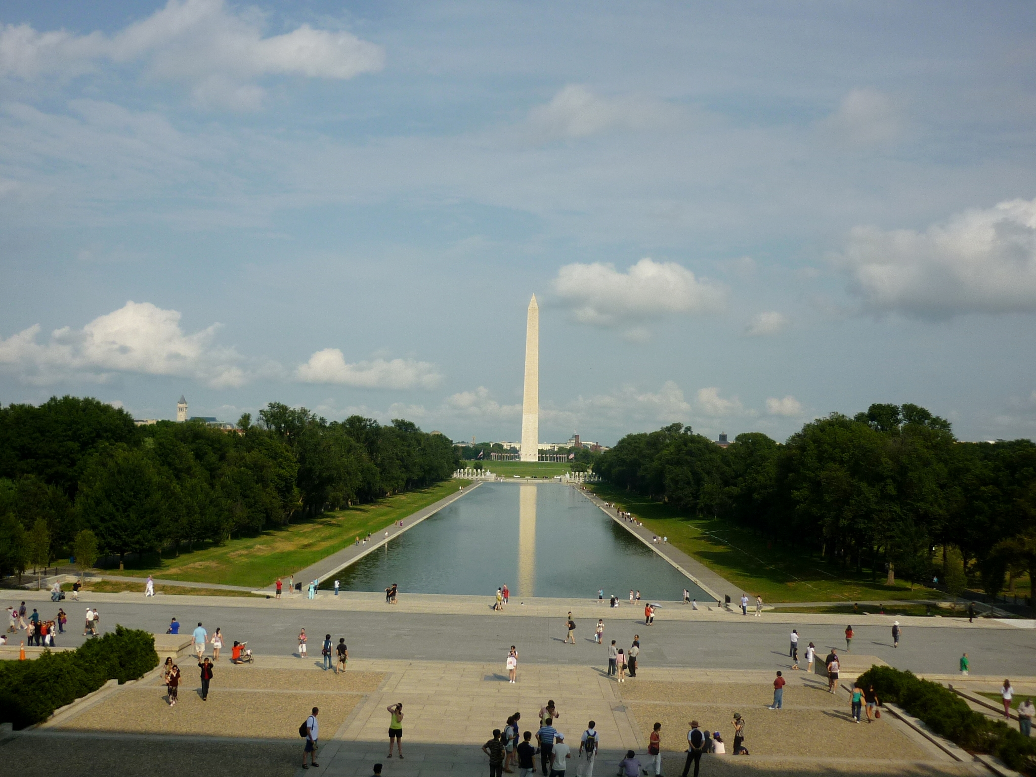 National Mall with Washington Monument in Washington DC